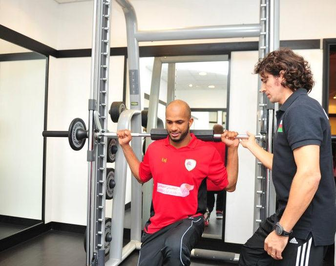 Ricardo Gomes da Silva in the OFA Performance Center with Ali Al Habsi. 11 June 2015 Seeb Sports Complex Photographer email id